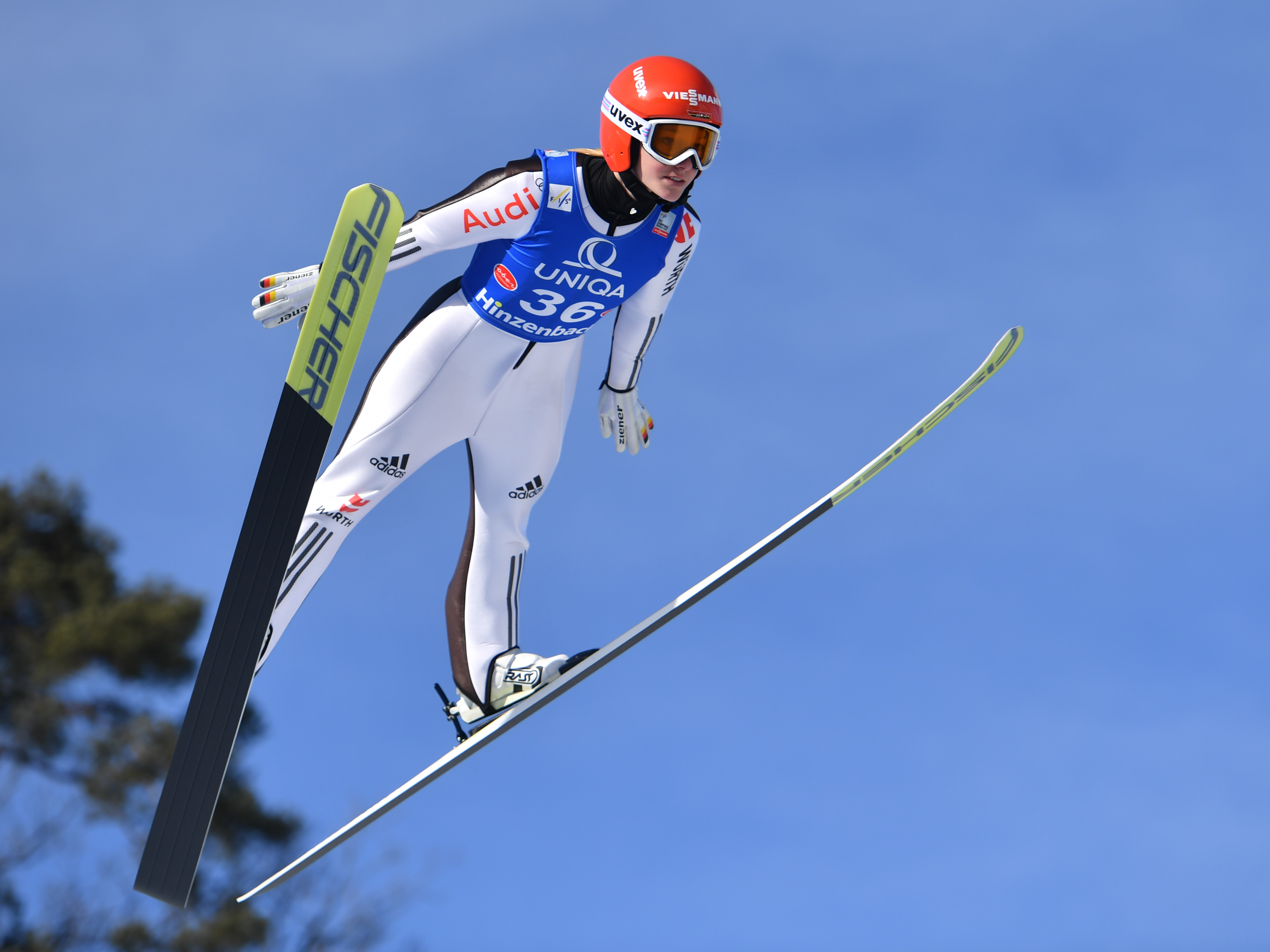 05/02/17, Hinzenbach, Austria, FIS Ski Jumping World Cup Ladies 2017